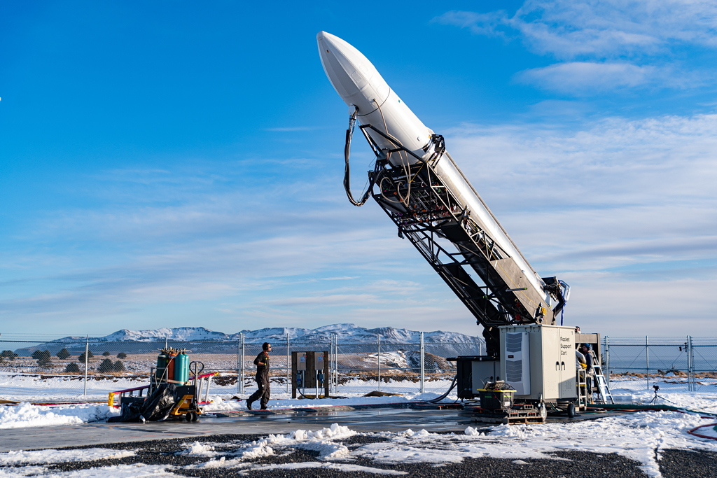 Launch campaign of the first Rocket 3.0 of Astra Space.